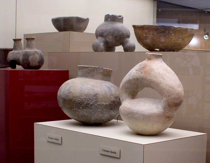 Ceramics from the Winterville Site